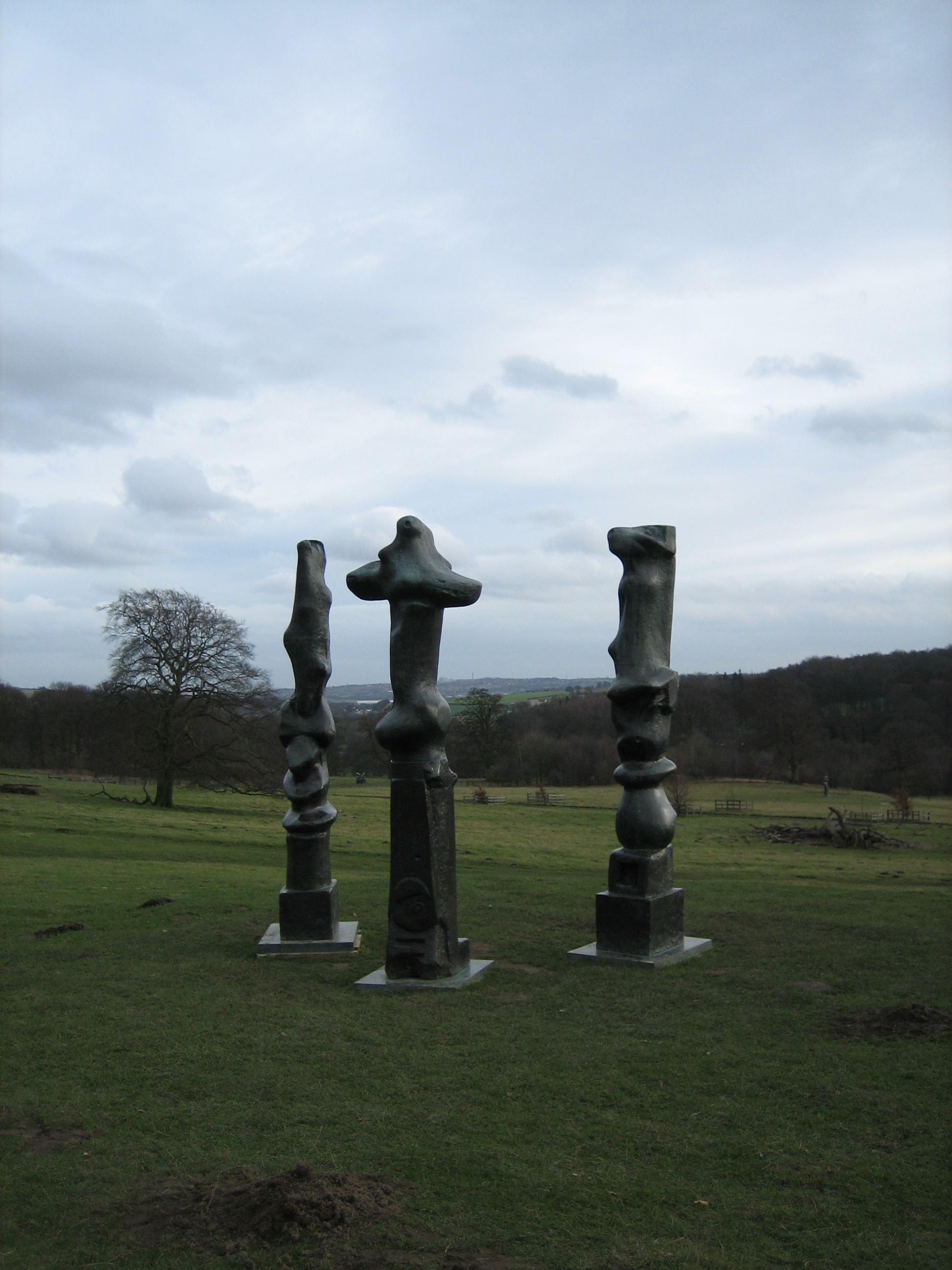 view of Yorkshire sculpture park/England vDate=Febr. 16, 2006